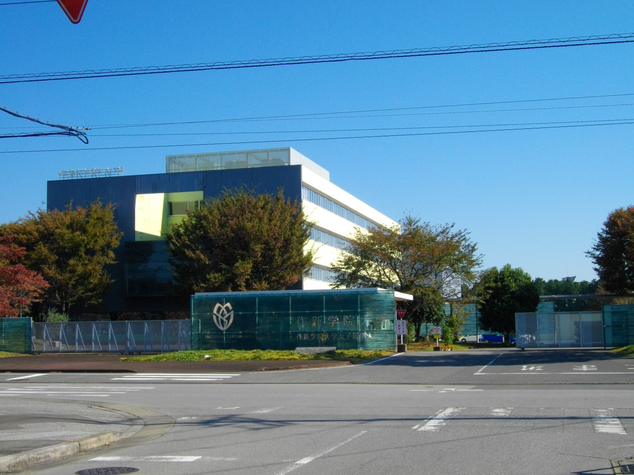 Sakushin Gakuin University